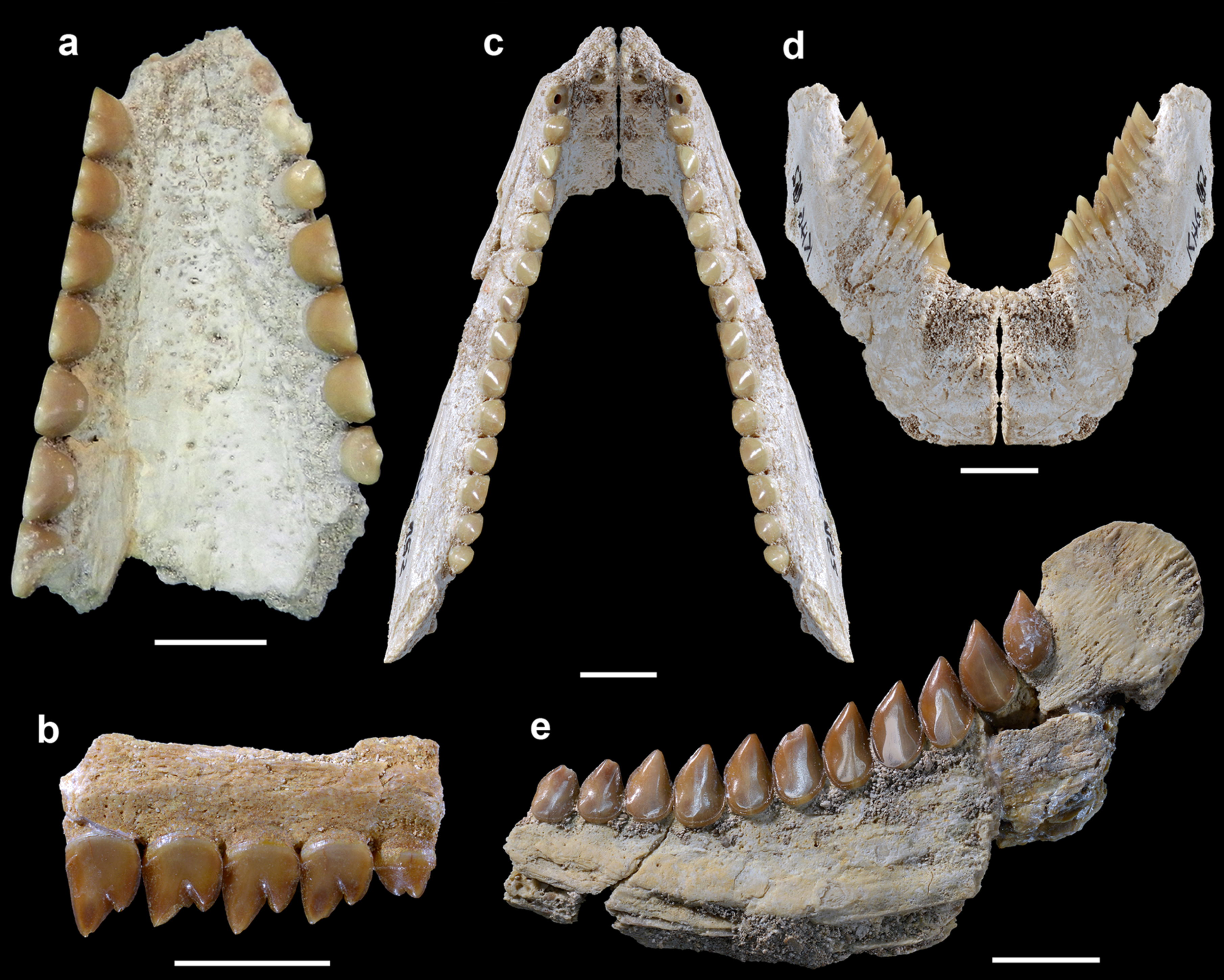 Serrasalmimus, Jaw elements and dentition of Serrasalmimus secans; (a) OCP DEK-GE 701, vomer in ventral (occlusal) view. (b) MHNM KHG 163, fragmentary vomer in right lateral (labial) view. (c,d) MHNM KHG 152, left prearticular (and mirror image for the right side) in dorsal (occlusal) (c) and anterior view (d). (e) MHNM KHG 158, right prearticular in medial (lingual) view. Scale bars 10 mm. Lower Paleogene of Morocco, Ouled Abdoun basin